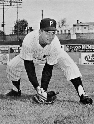 Professional baseball player Jerry Buchek